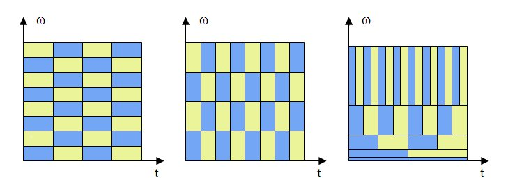 time and frequency resolutions of STFT and Wavelet transform